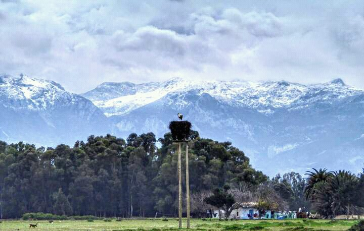 A view of mount ghorghiz in Tetouan.